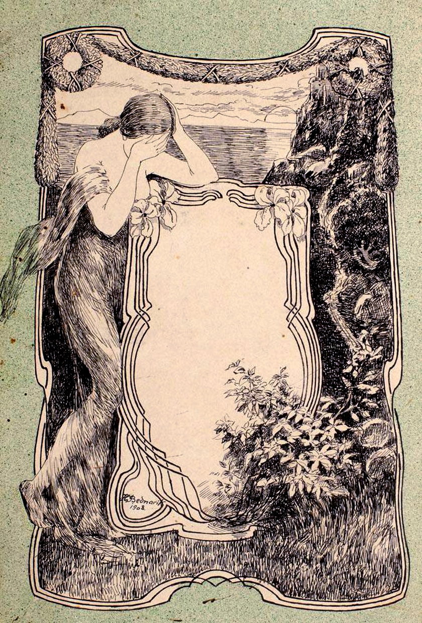 Art Nouveau vignette to the story Zâna apelor ("Water Fairy"). Ink on cardboard, 18 over 12 cm.